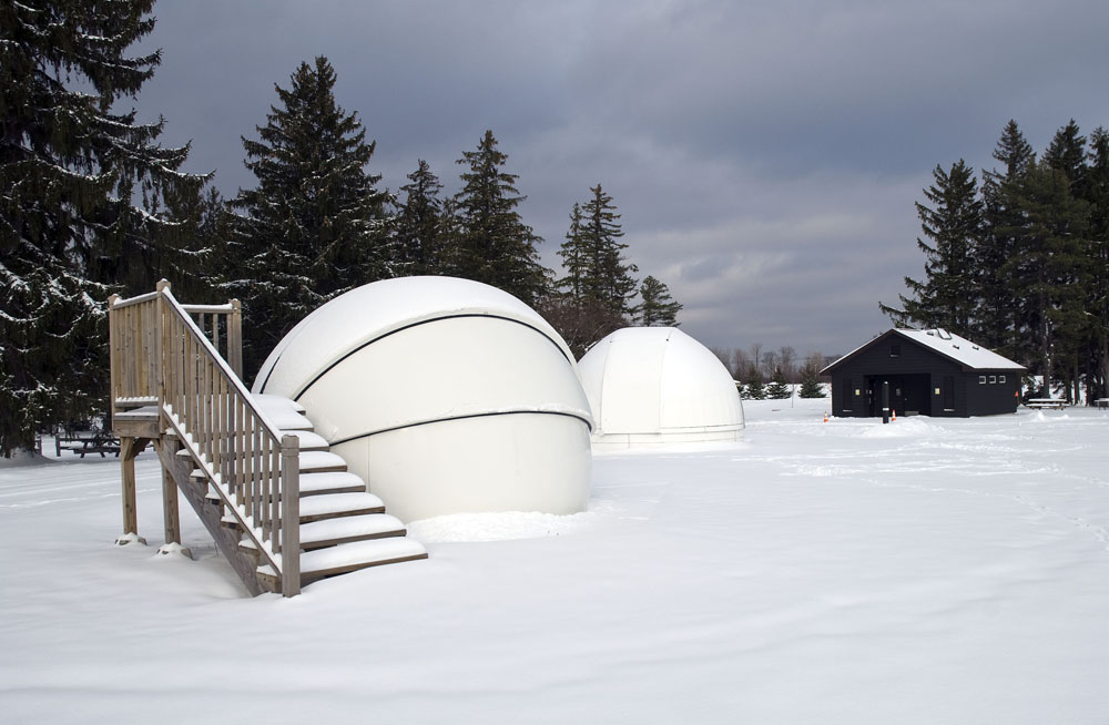 Snow covers the astronomy domes at Cherry Springs State Park, Pennsylvania, USA